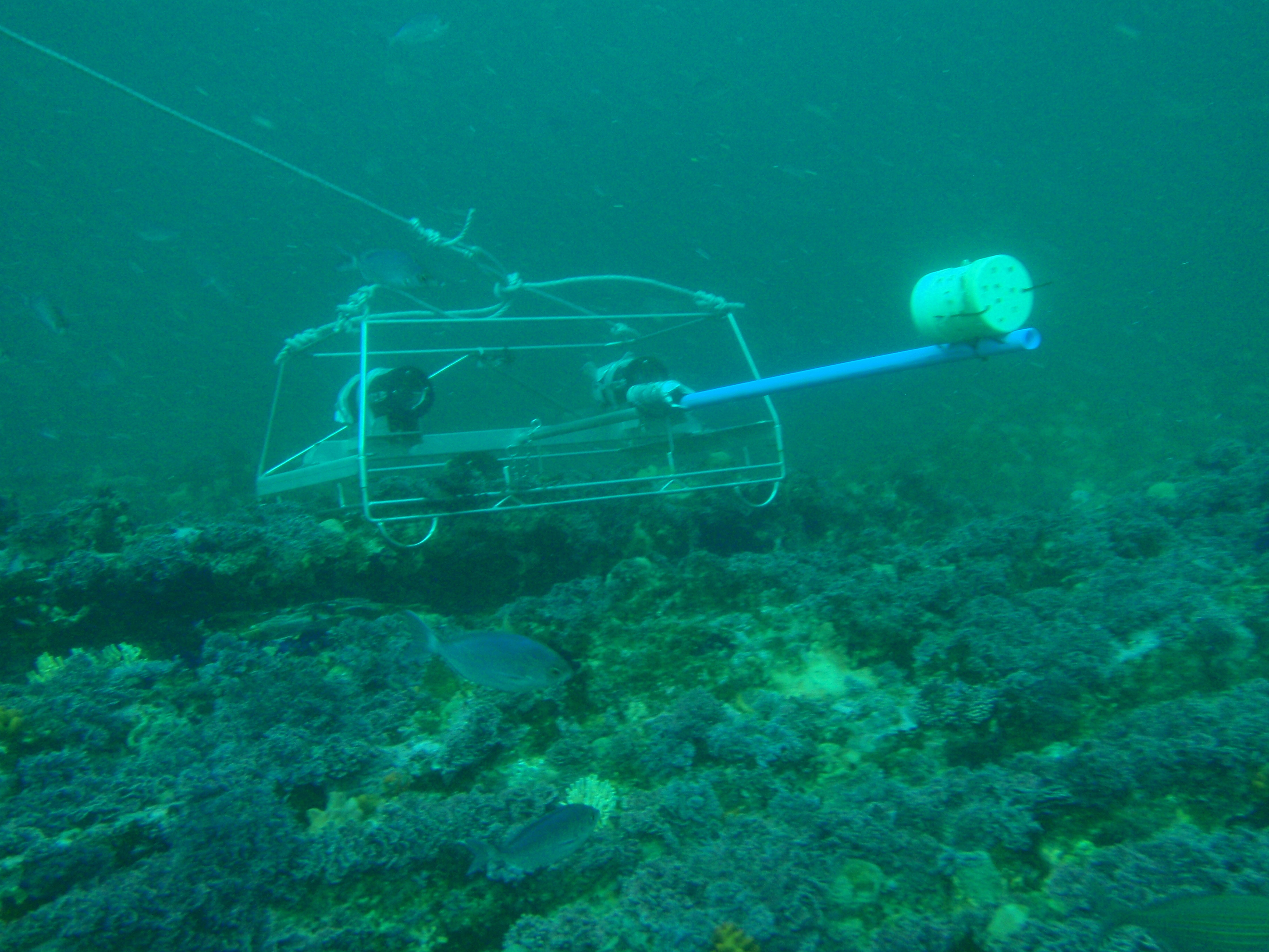 Stereo baited remote underwater video system on trial at Rheeder's Reef, Tritsikamma MPA